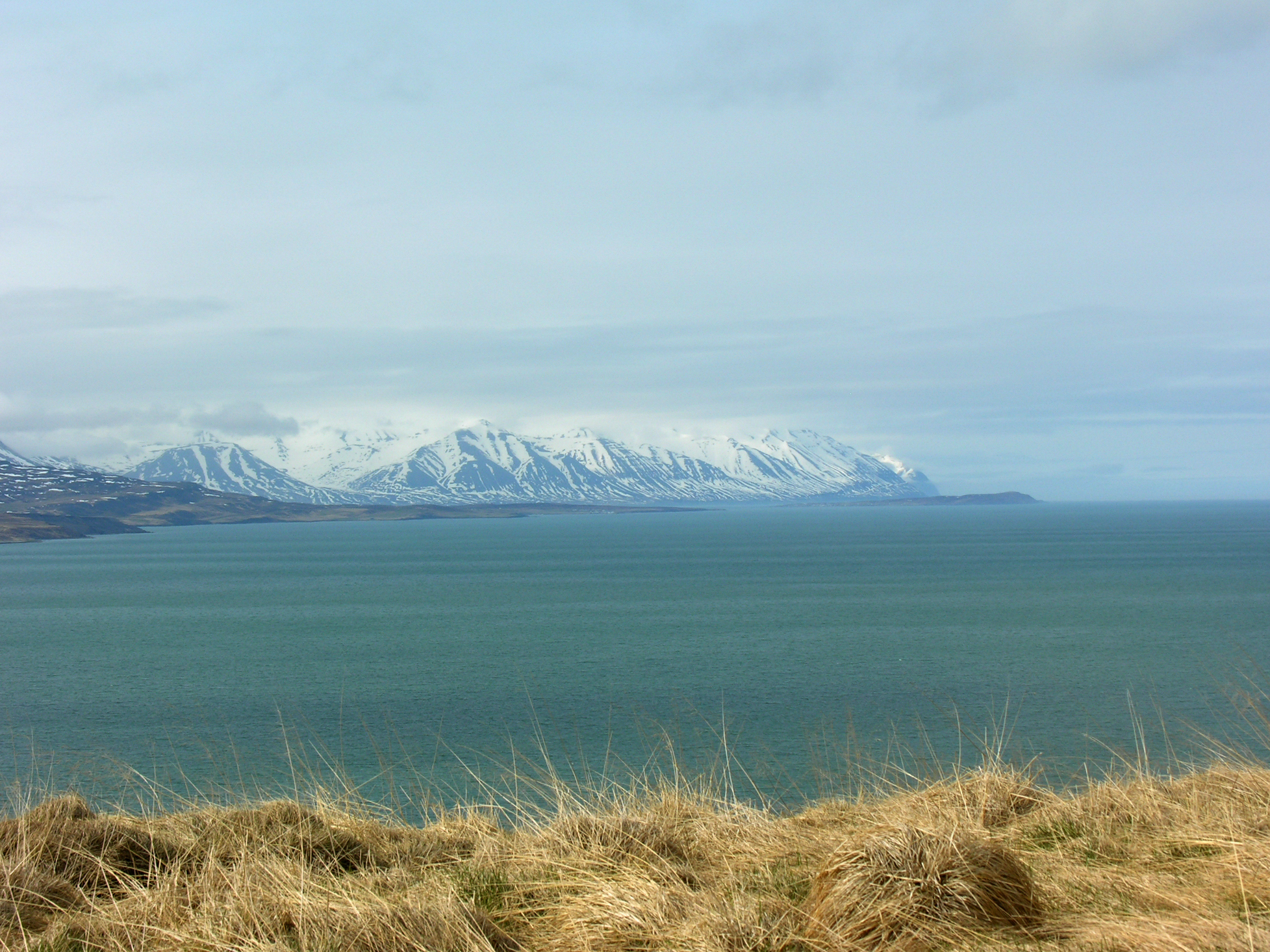 Iceland, impressions along road 1 (Hringvegur)